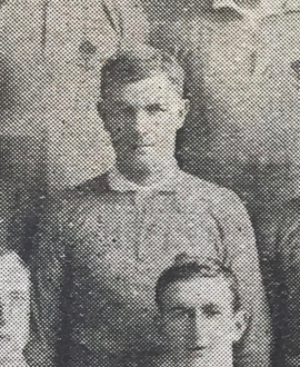 Photograph of Grahame McConechy in 1904